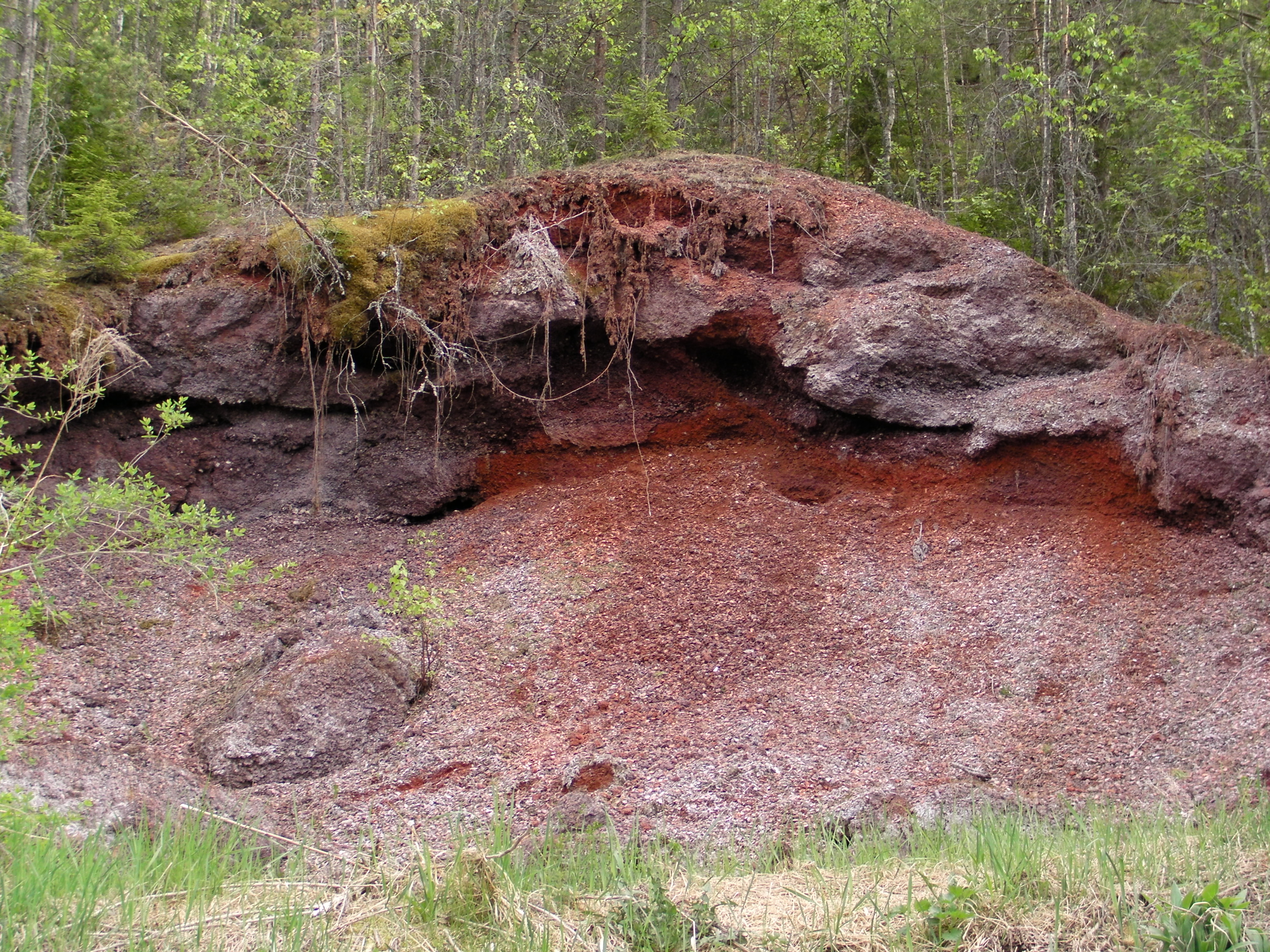 The red shale ash of which the Kvarntorp heap is composed.